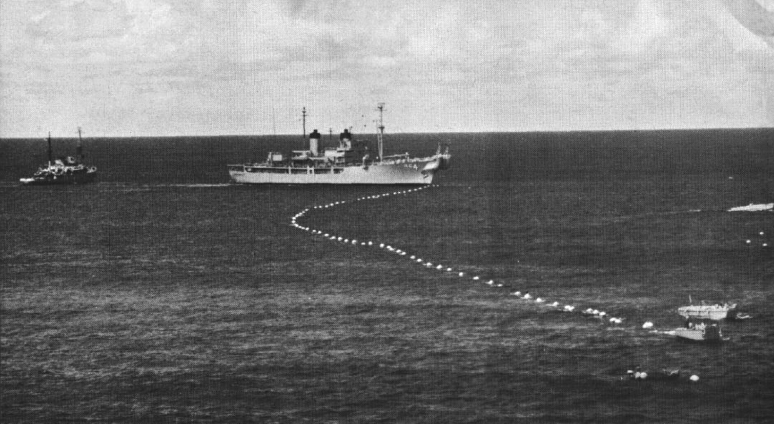 The U.S. Navy cable laying and repair ship USS Thor (ARC-4) lays the shore end of a cable, circa 1963. Floats hold the cable in position for sinking.